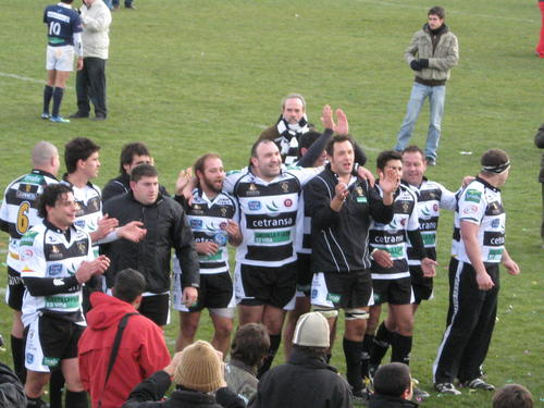 Chami